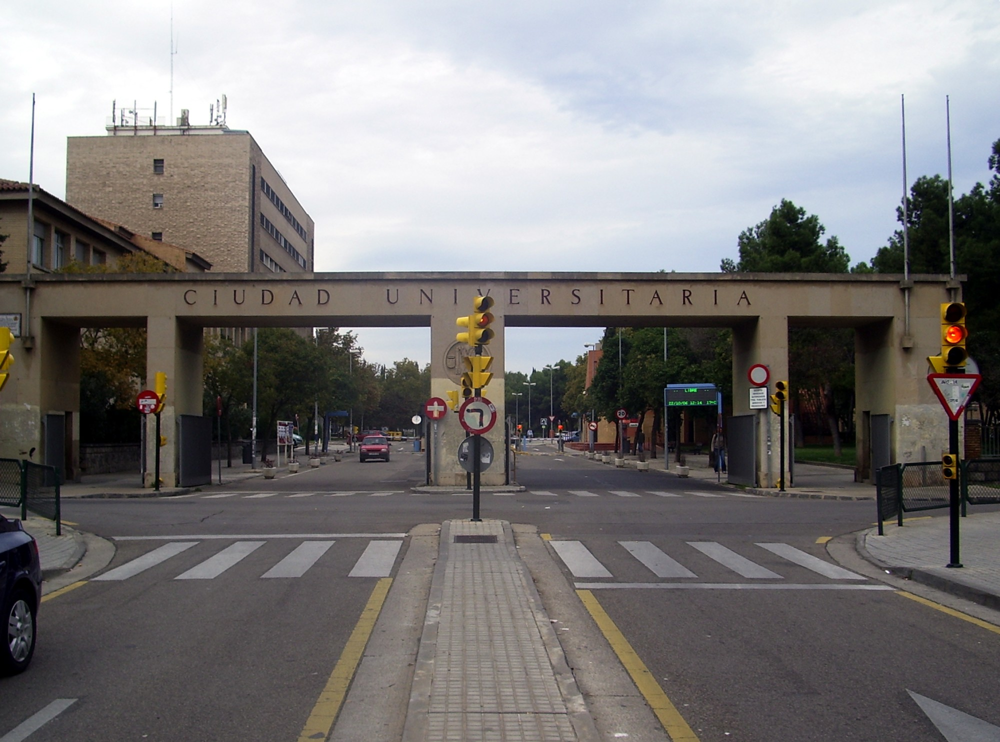 Entry of the "Ciudad Universitaria" (Main campus) of the University of Zaragoza. Most of the faculties and the headquarters of the university are here.